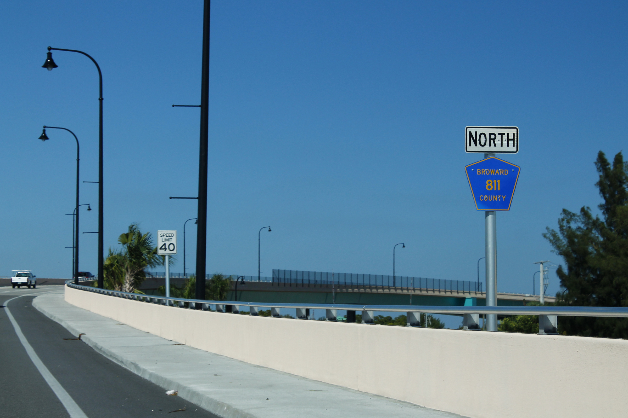 CR811nRoadSign-OnBridge